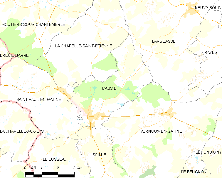 Map of French municipality L'Absie